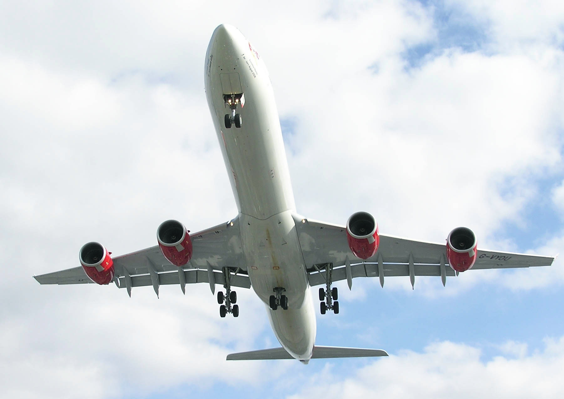 A Virgin Atlantic Airbus A340-600 (G-VYOU) lands at London Heathrow Airport, England.